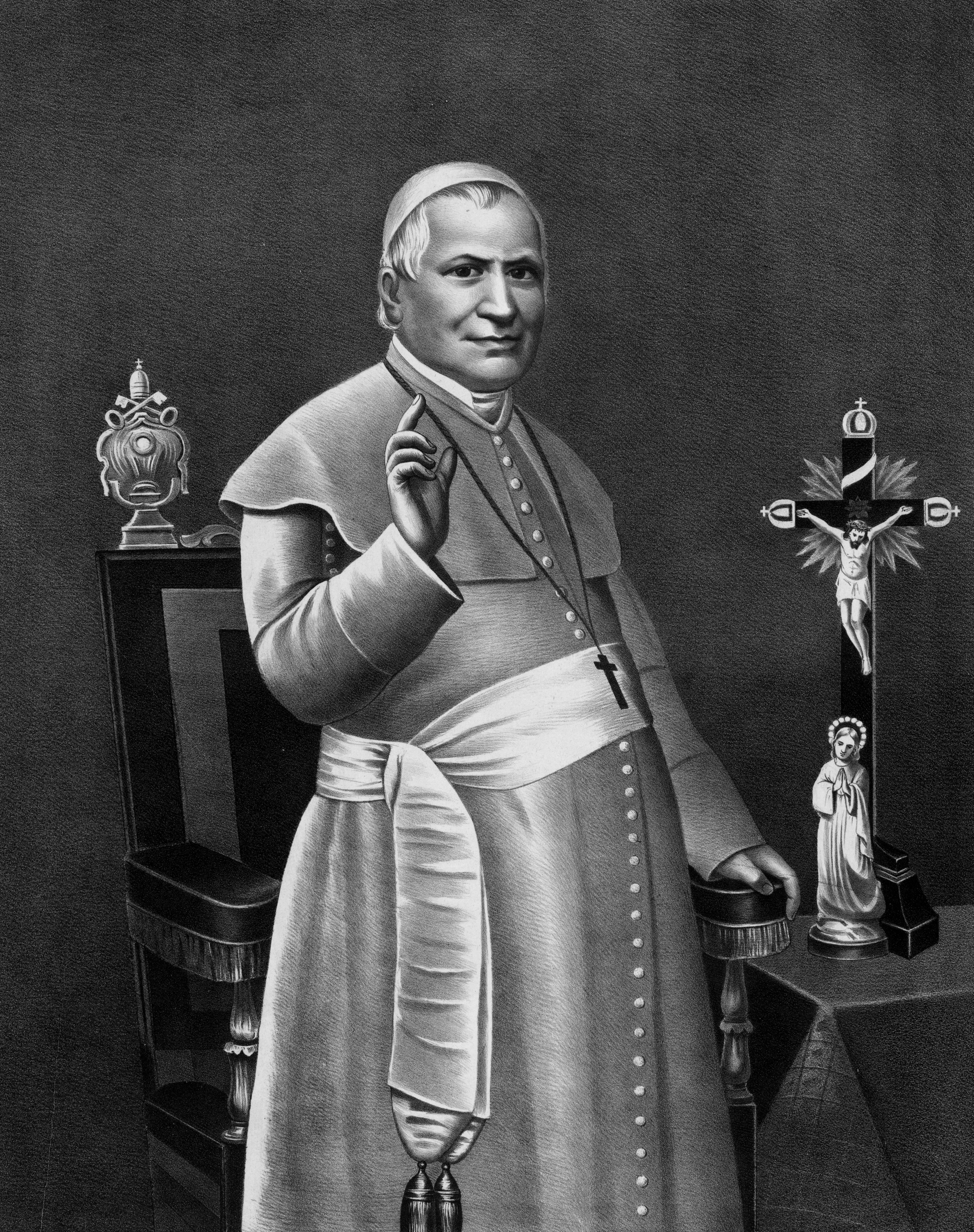 Pope Pius IX.